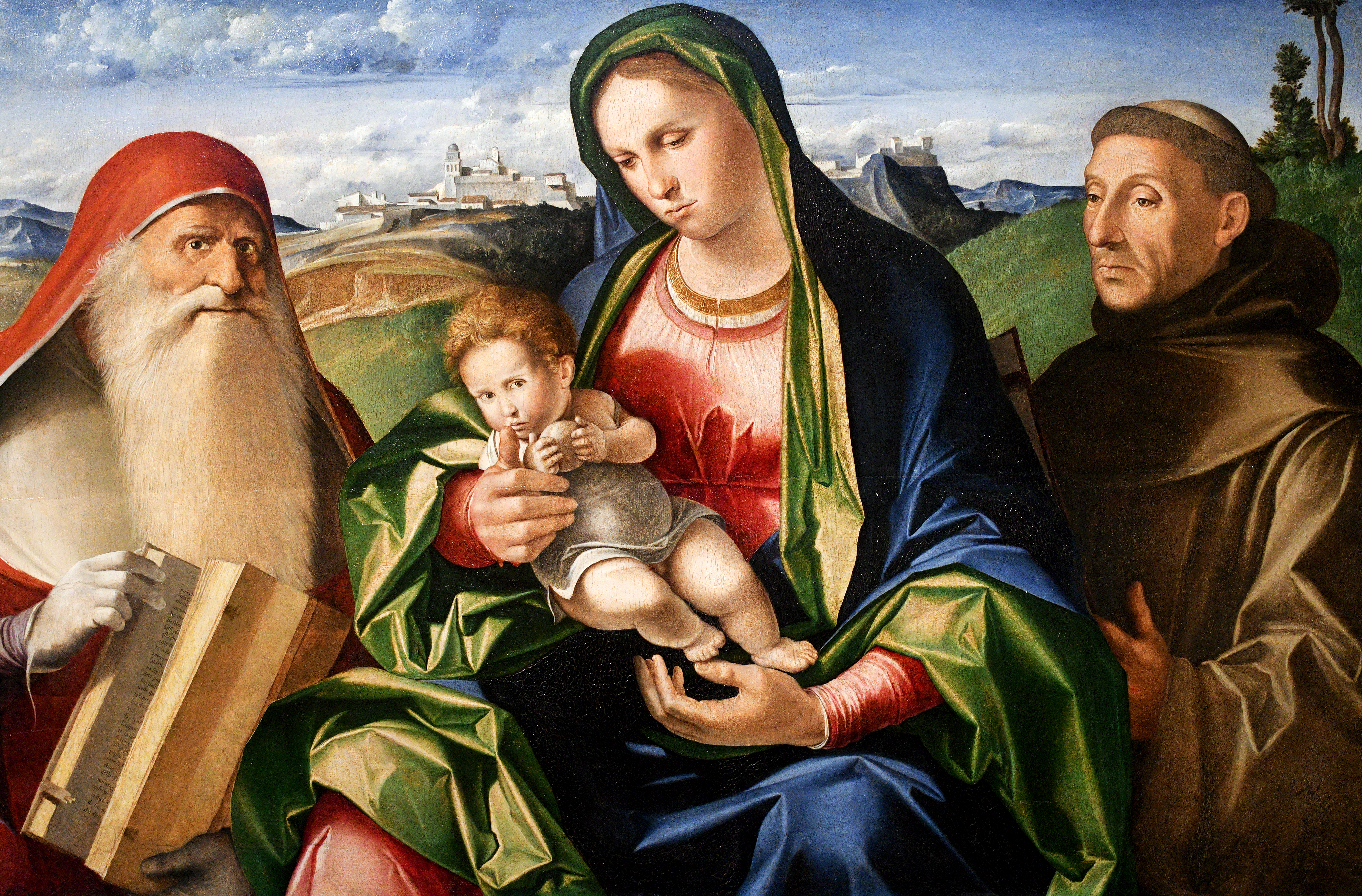 Madonna and Child between St. Jerome and St. Francis